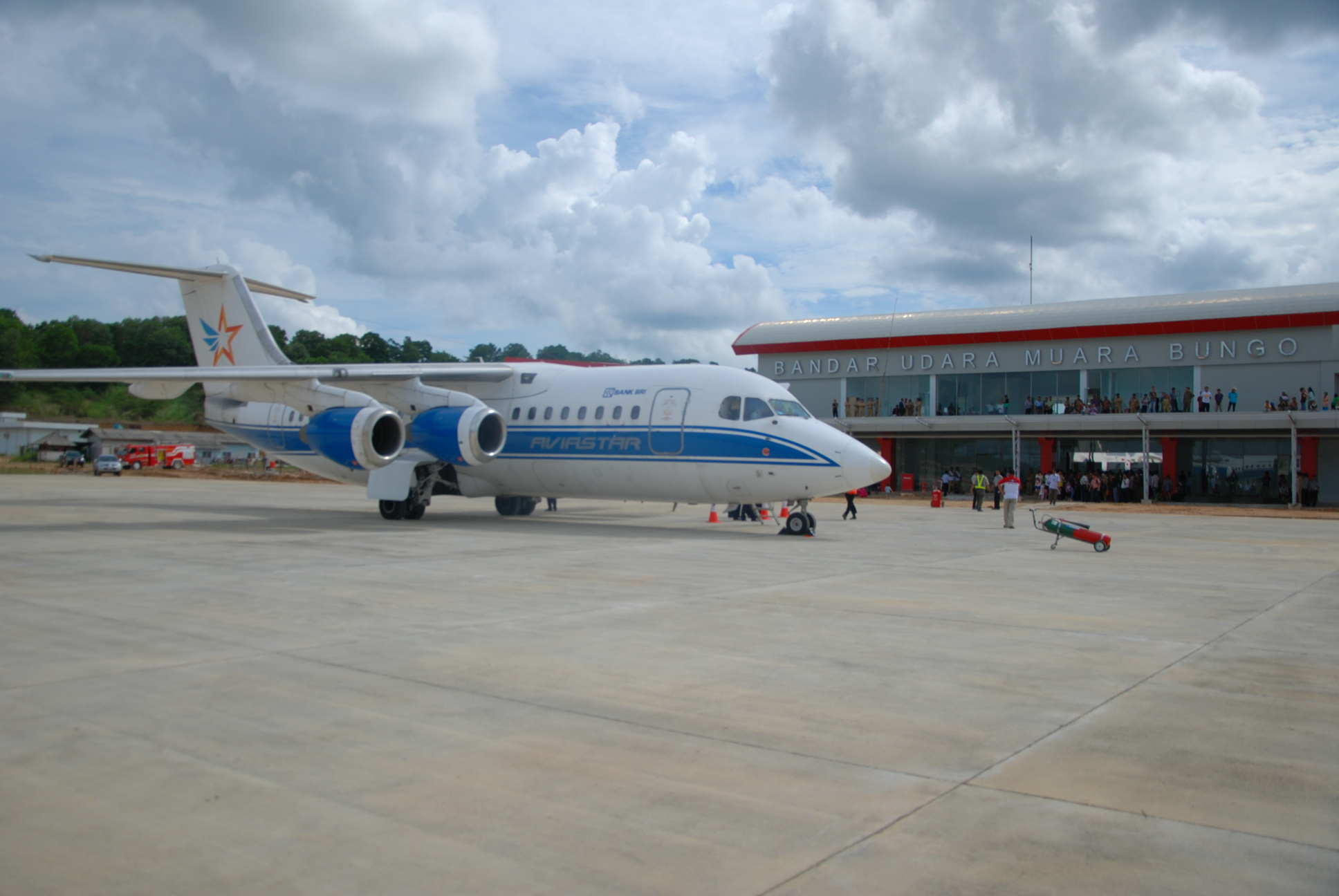 Our inaugural flight at Muara Bungo